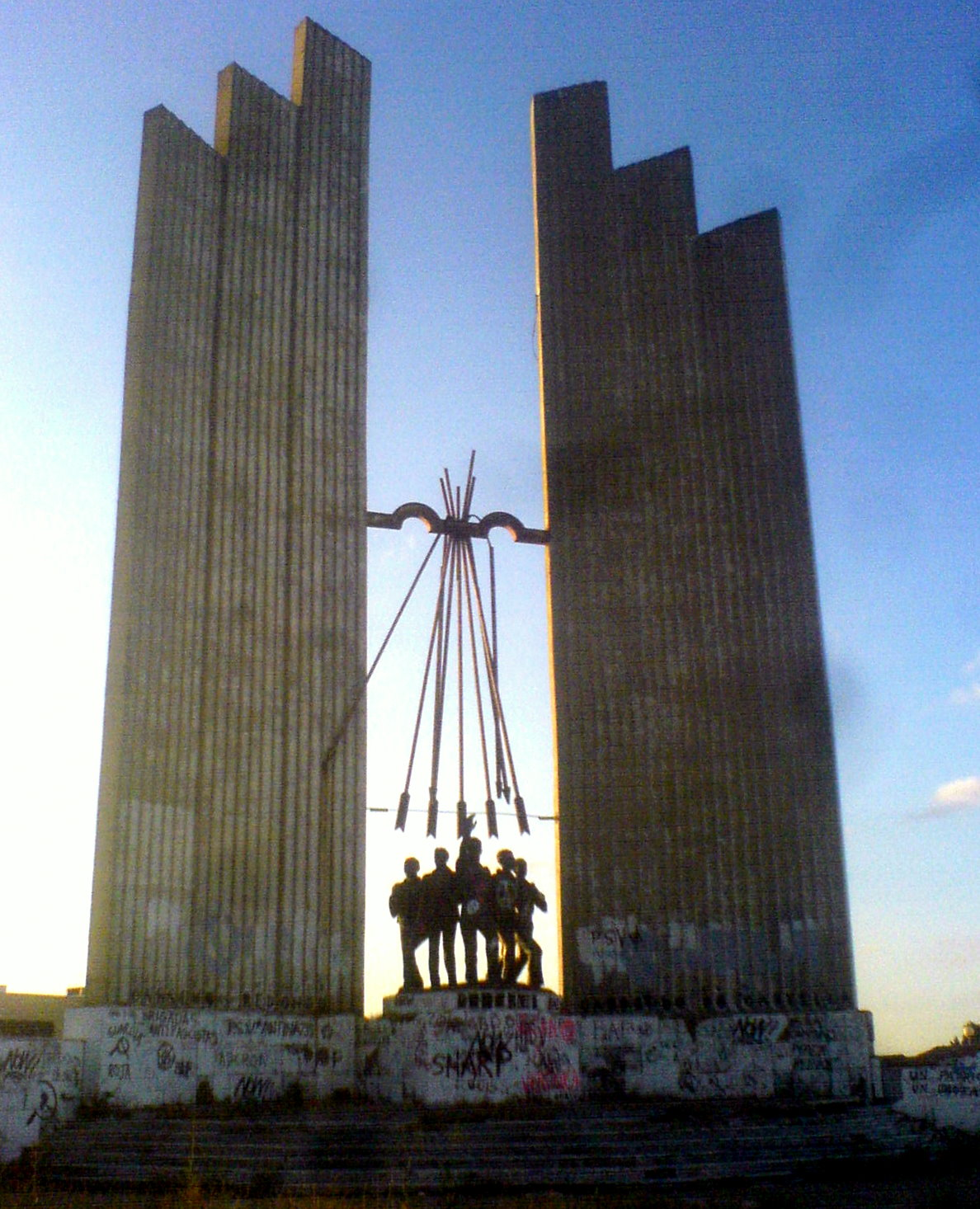 Onésimo Redondo's monument in Cerro San Cristóbal, Valladolid, Spain.